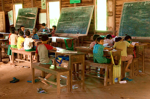 Hsipaw, Burma.